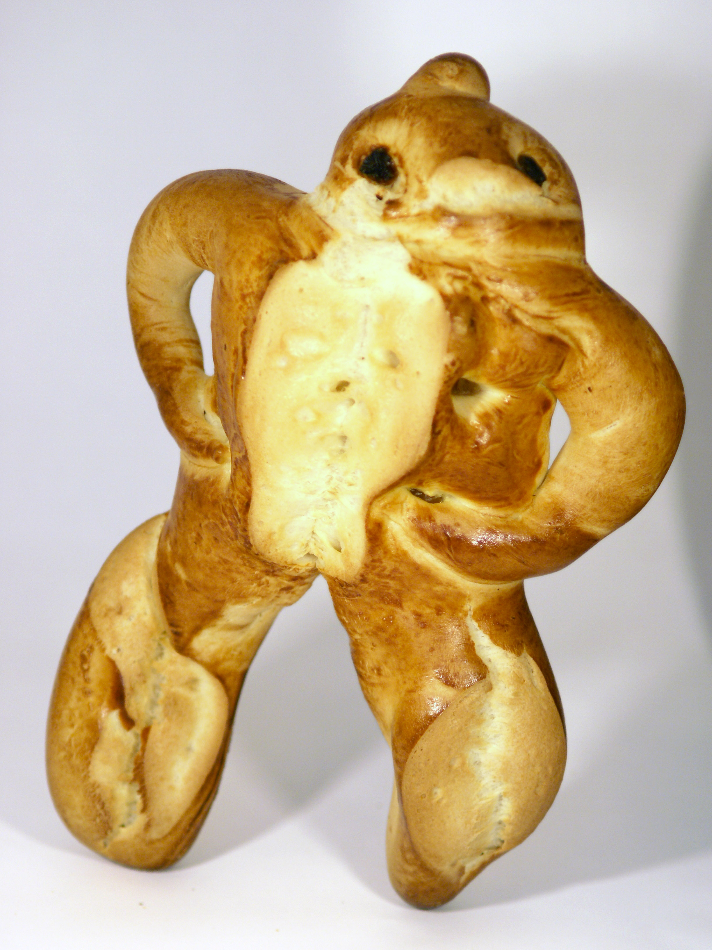 Grittibänz, a traditional pastry from Switzerland.